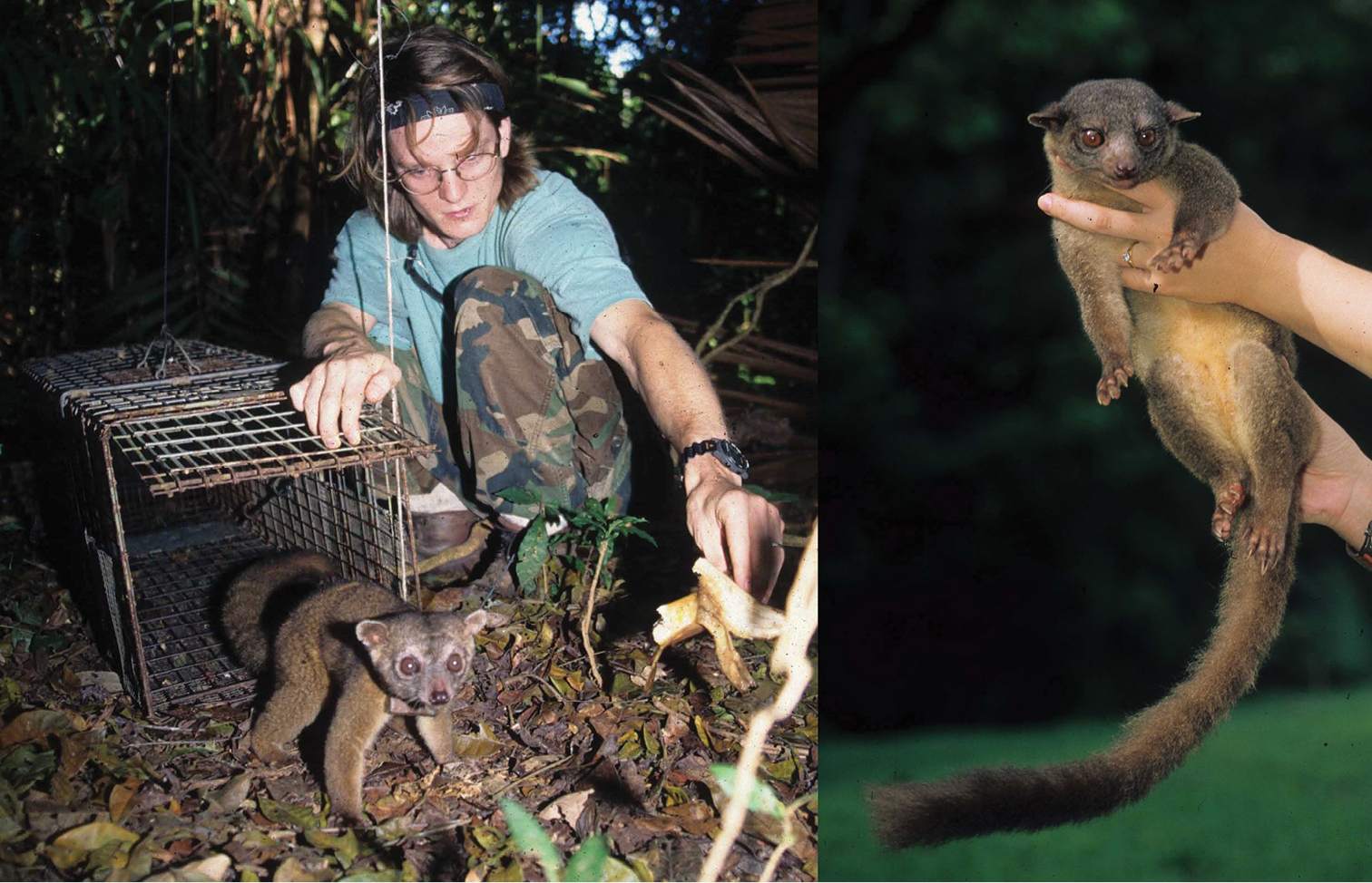 Western Lowland Olingo, Bassaricyon medius orinomus, in life. Wild animals captured, radio-collared, released, and studied by Roland Kays in Limbo Plot, Pipeline Road, Gamboa, Panama (Kays 2000). Photographs courtesy of M. Guerra and R. Kays. Helgen K, Pinto C, Kays R, Helgen L, Tsuchiya M, Quinn A, Wilson D, Maldonado J (2013). "Taxonomic revision of the olingos (Bassaricyon), with description of a new species, the Olinguito". ZooKeys 324: 1--83. Pensoft Publishers. Retrieved on 2013-08-15.